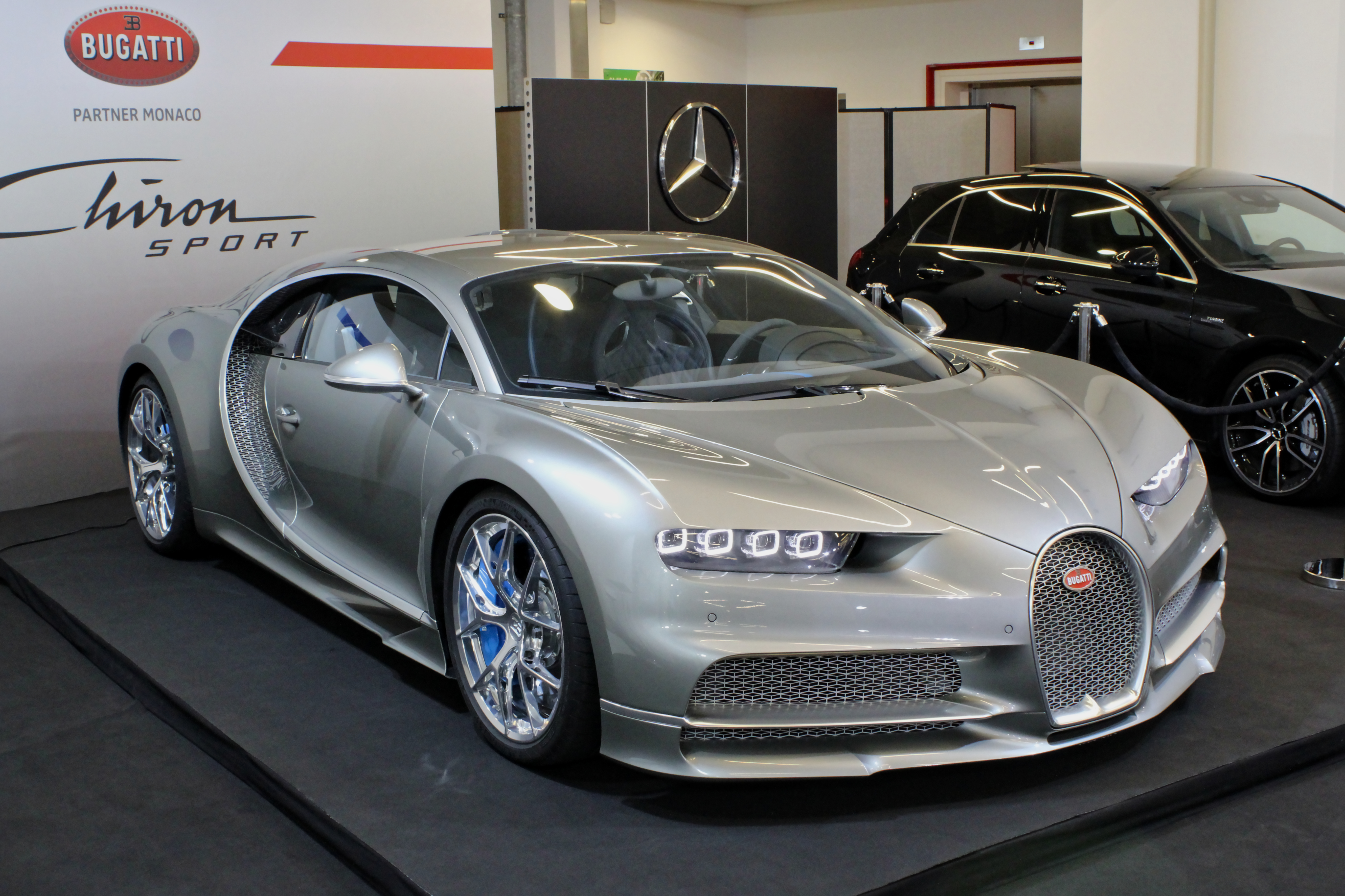 Bugatti Chiron Sport at Top Marques 2019